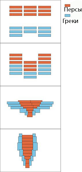 Scheme of battle of Marathon (490 BC). Inscriptions from chinese translated by me in russian